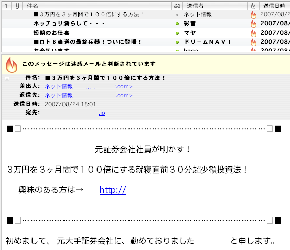 Example of SPAM Mail (Japanese)